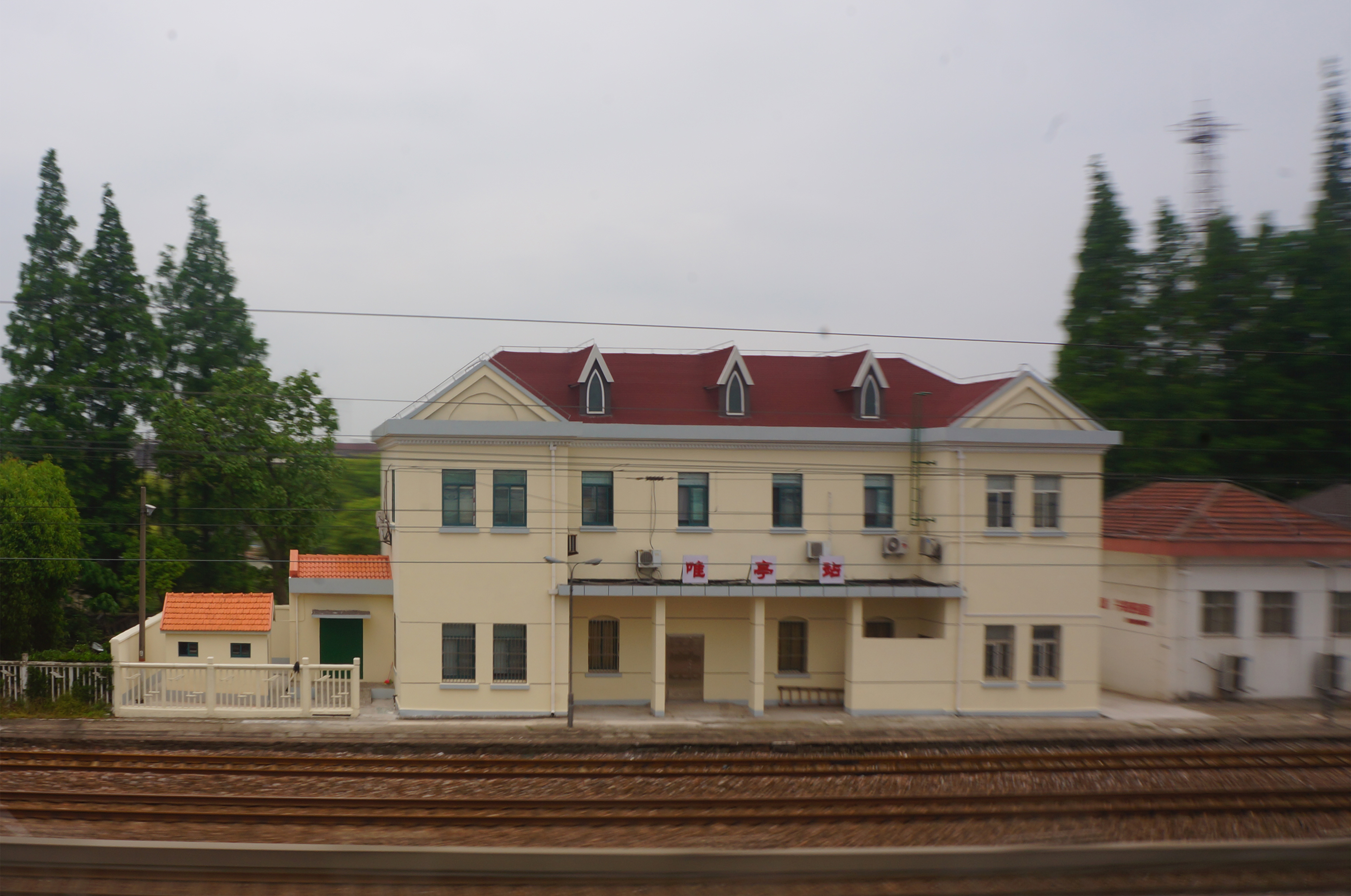 201705 Station building of Weiting Station